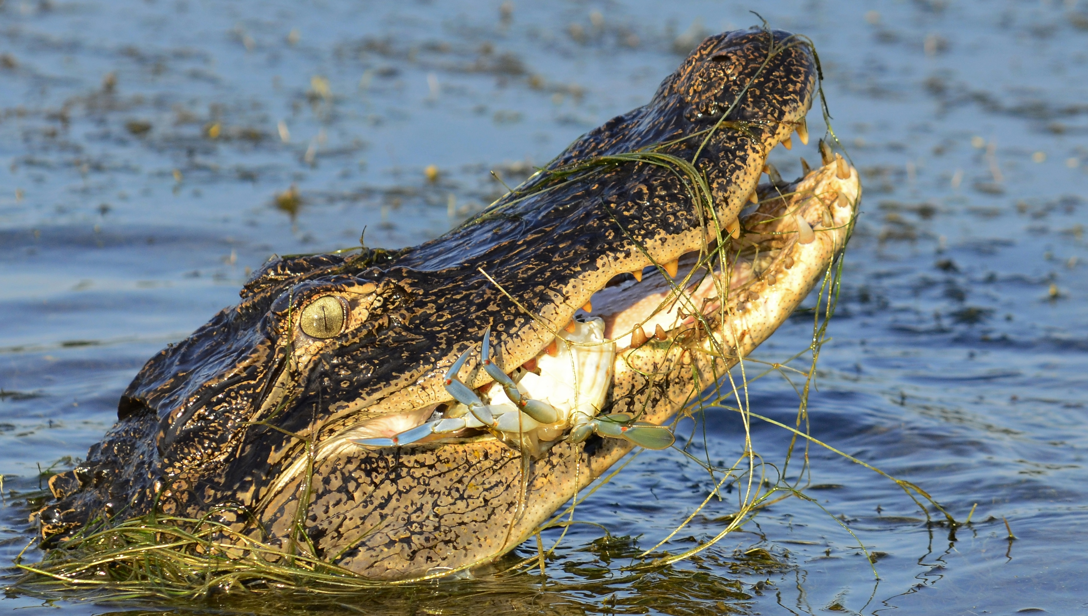 Huntington Beach State Park, Murrells Inlet, South Carolina, USA